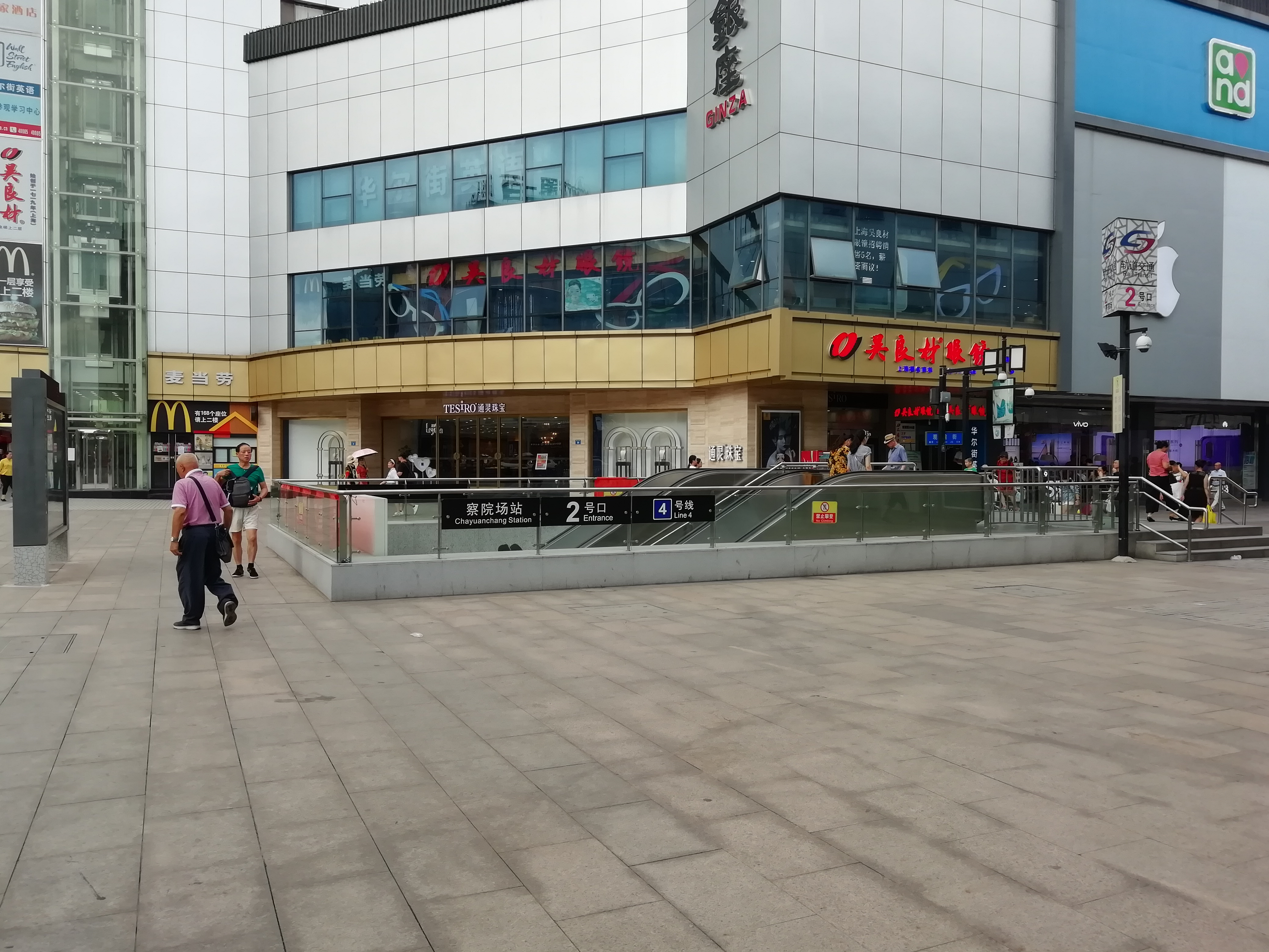 Exit 2 of Chayuanchang Station of Line 4, Suzhou Rail Transit 中文（中国大陆）: 苏州轨道交通4号线察院场站2号出口